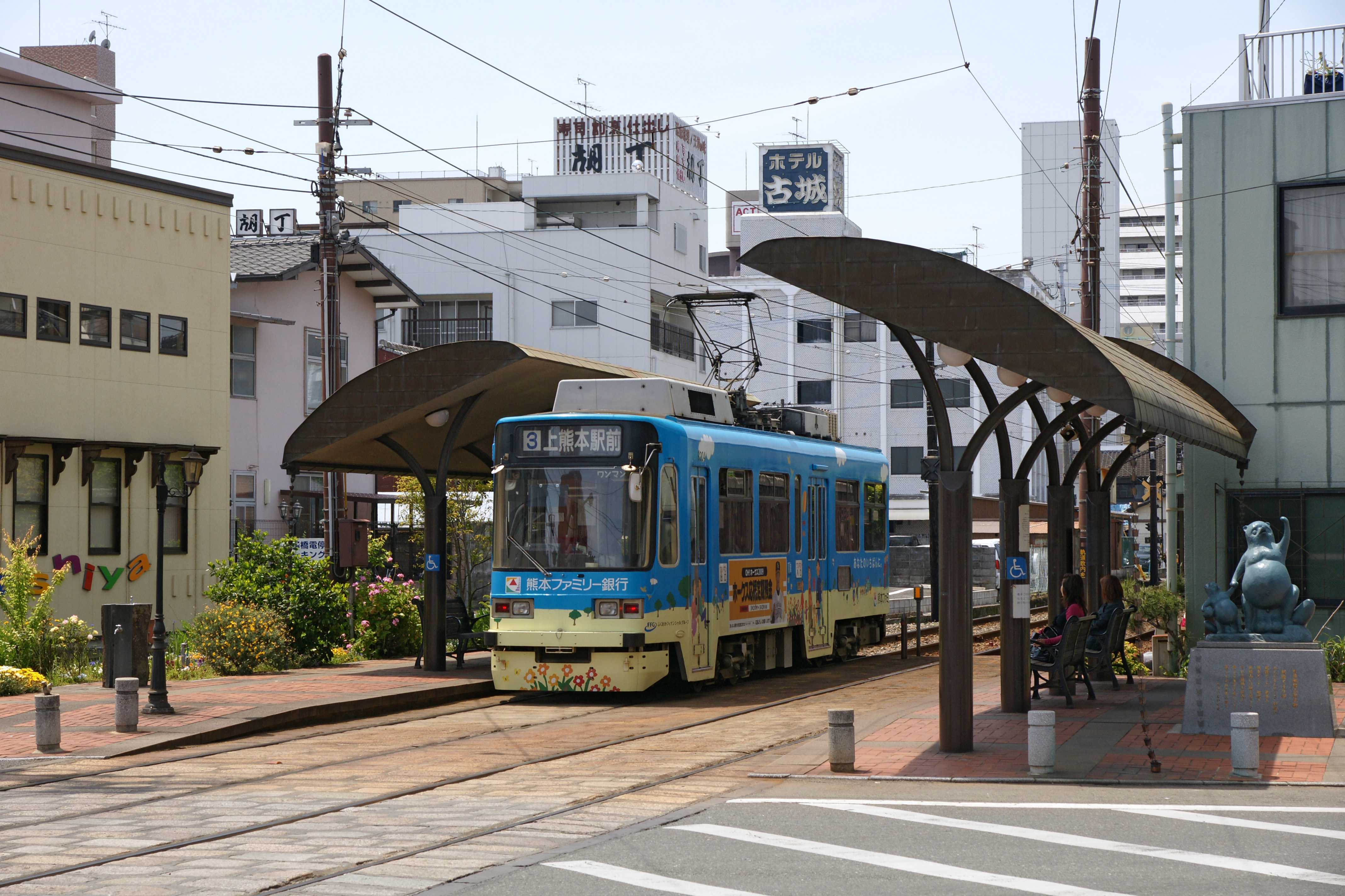 Senbabashi Station, Kumamoto, Kumamoto prefecture, Japan